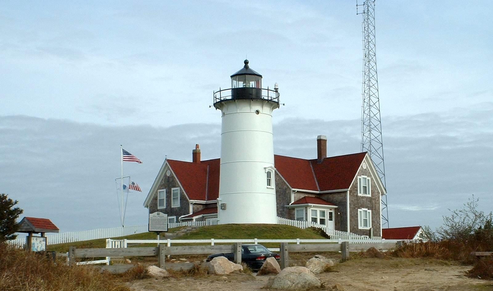 The Nobska Lighthouse, Falmouth, Massachusetts, as viewed from the shore.